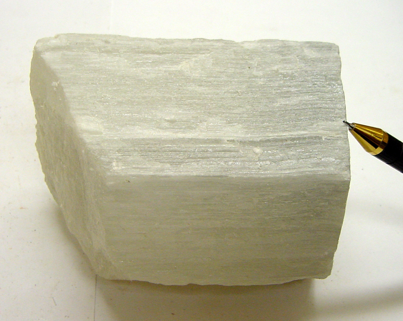 Trona (pen for scale) Mineral collection of Brigham Young University Department of Geology, Provo, Utah. BYU index 9-9044